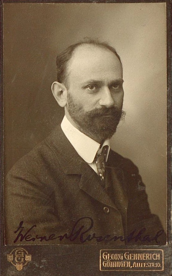 Werner Rosenthal (1870-1942)